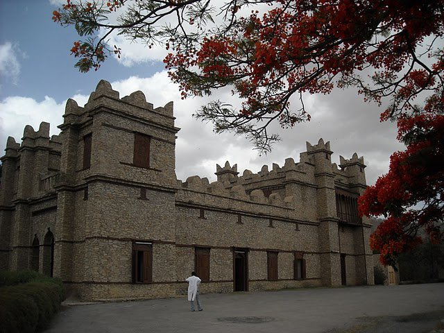 Yohannes IV palace, Meqelé, Tigray, Ethiopia